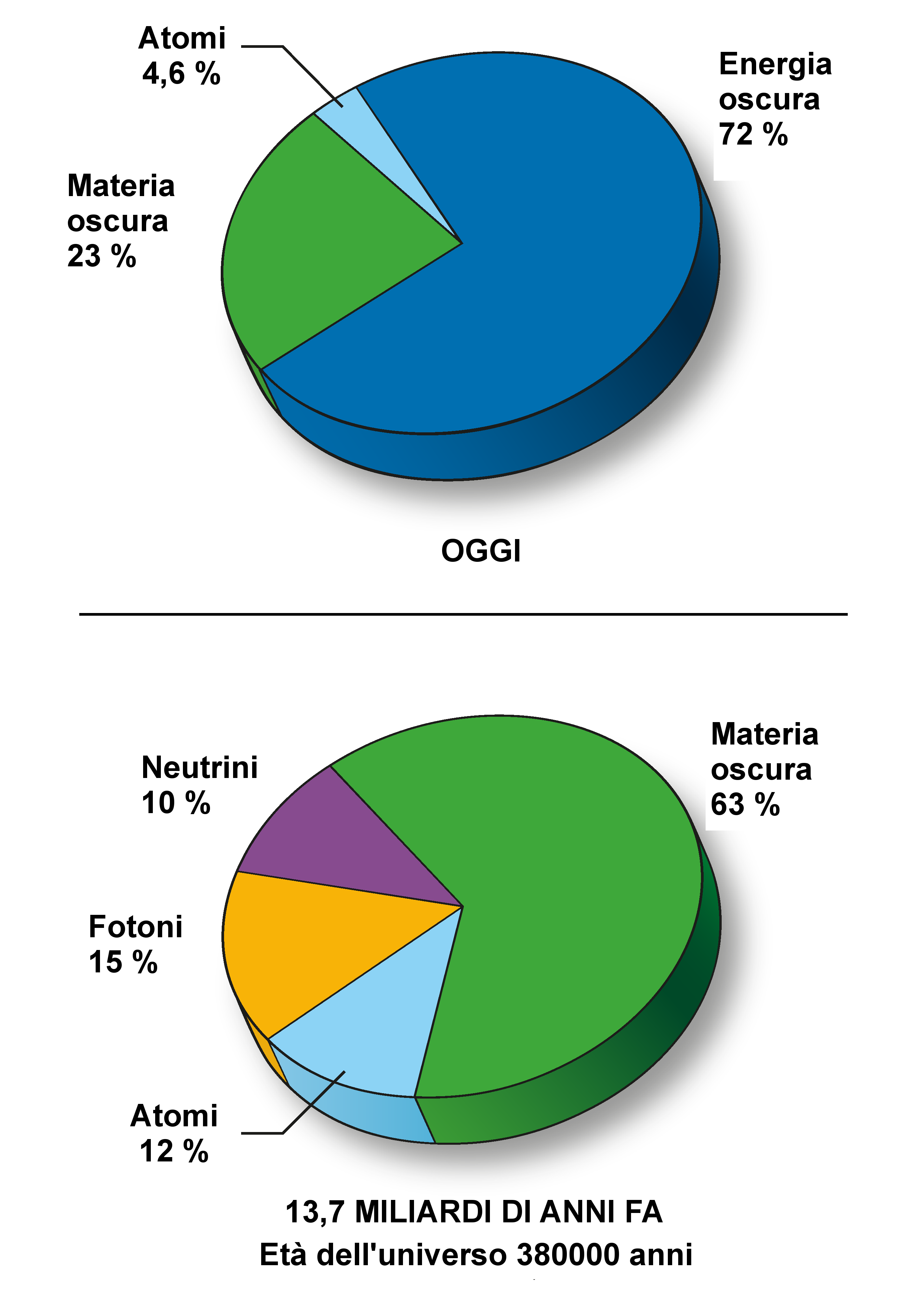 "WMAP data reveals that its contents include 4.6% atoms, the building blocks of stars and planets. Dark matter comprises 23% of the universe. This matter, different from atoms, does not emit or absorb light. It has only been detected indirectly by its gravity. 72% of the universe, is composed of "dark energy", that acts as a sort of an anti-gravity. This energy, distinct from dark matter, is responsible for the present-day acceleration of the universal expansion. WMAP data is accurate to two digits, so the total of these numbers is not 100%. This reflects the current limits of WMAP's ability to define Dark Matter and Dark Energy."